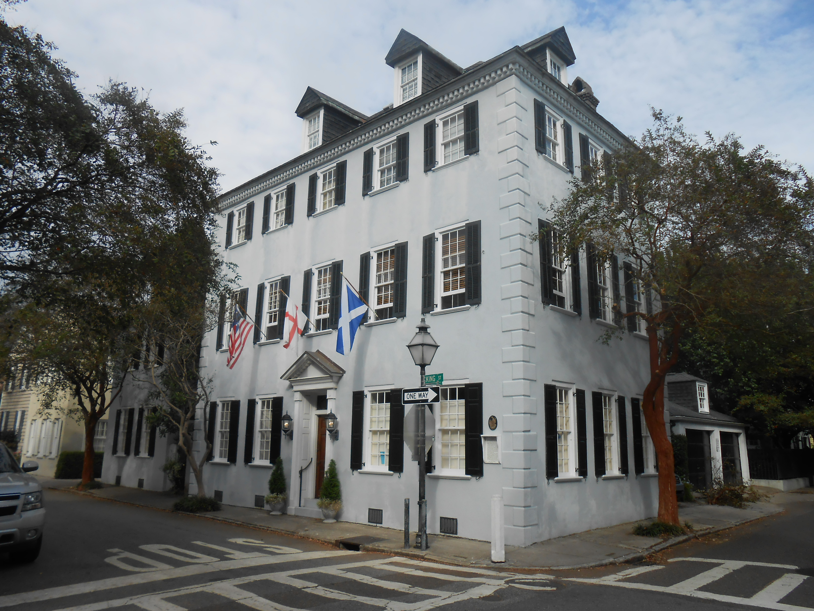 The house at 94 Tradd St., Charleston, South Carolina was once the studio for Samuel Morse.